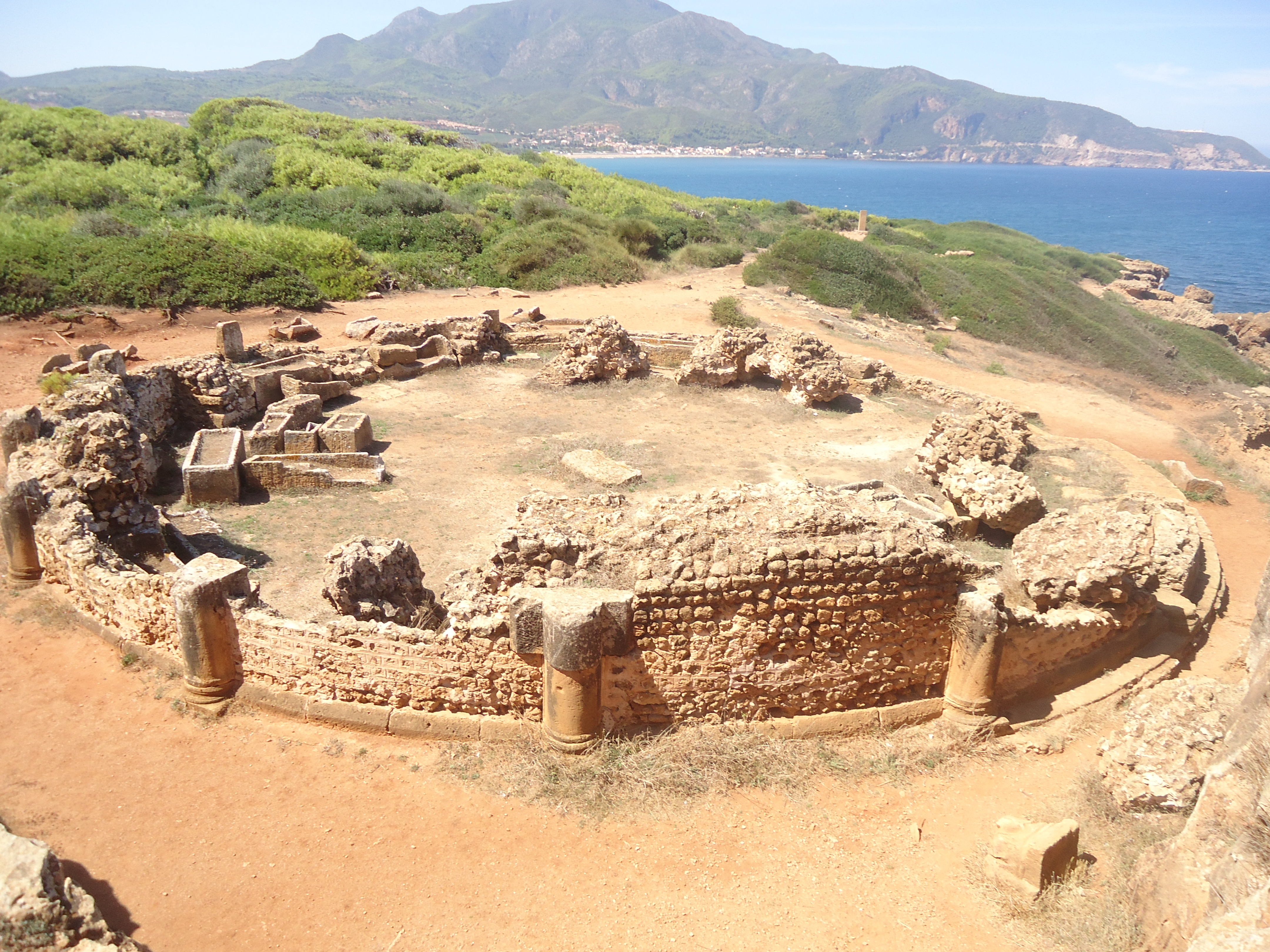 Circular mausoleum from Roman times in Tipaza, Tipaza province, Algeria